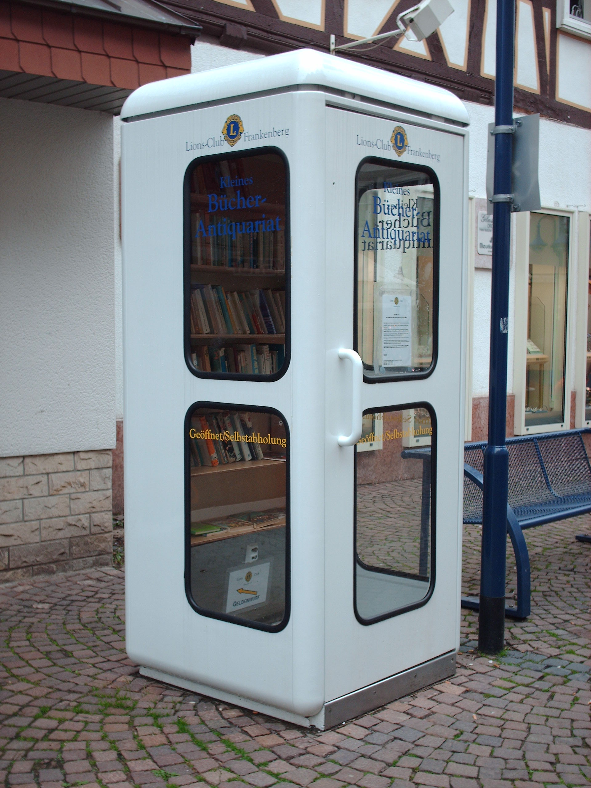 Bookshop, Frankenberg (Eder), Germany check usage